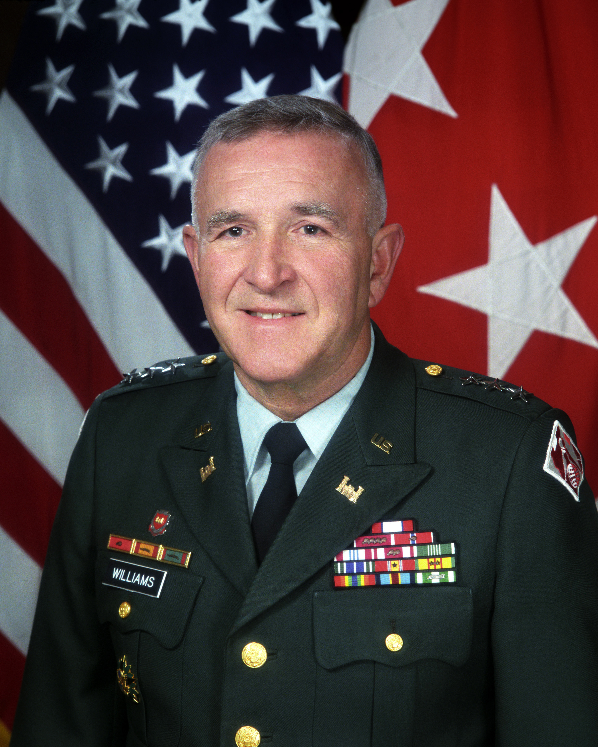 Portrait of U.S. Army Lt. Gen. Arthur E. Williams, (Uncovered). (U.S. Army photo by Mr. Scott Davis) (Released) (PC-192444